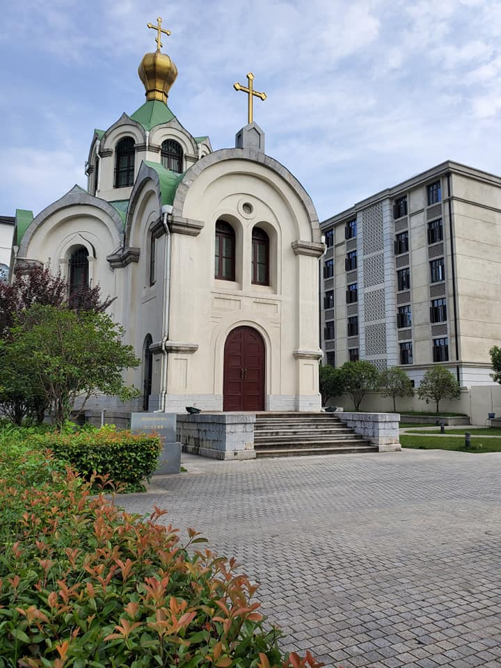 This is an Orthodox Church in Hankou, Wuhan, Hubei, China.